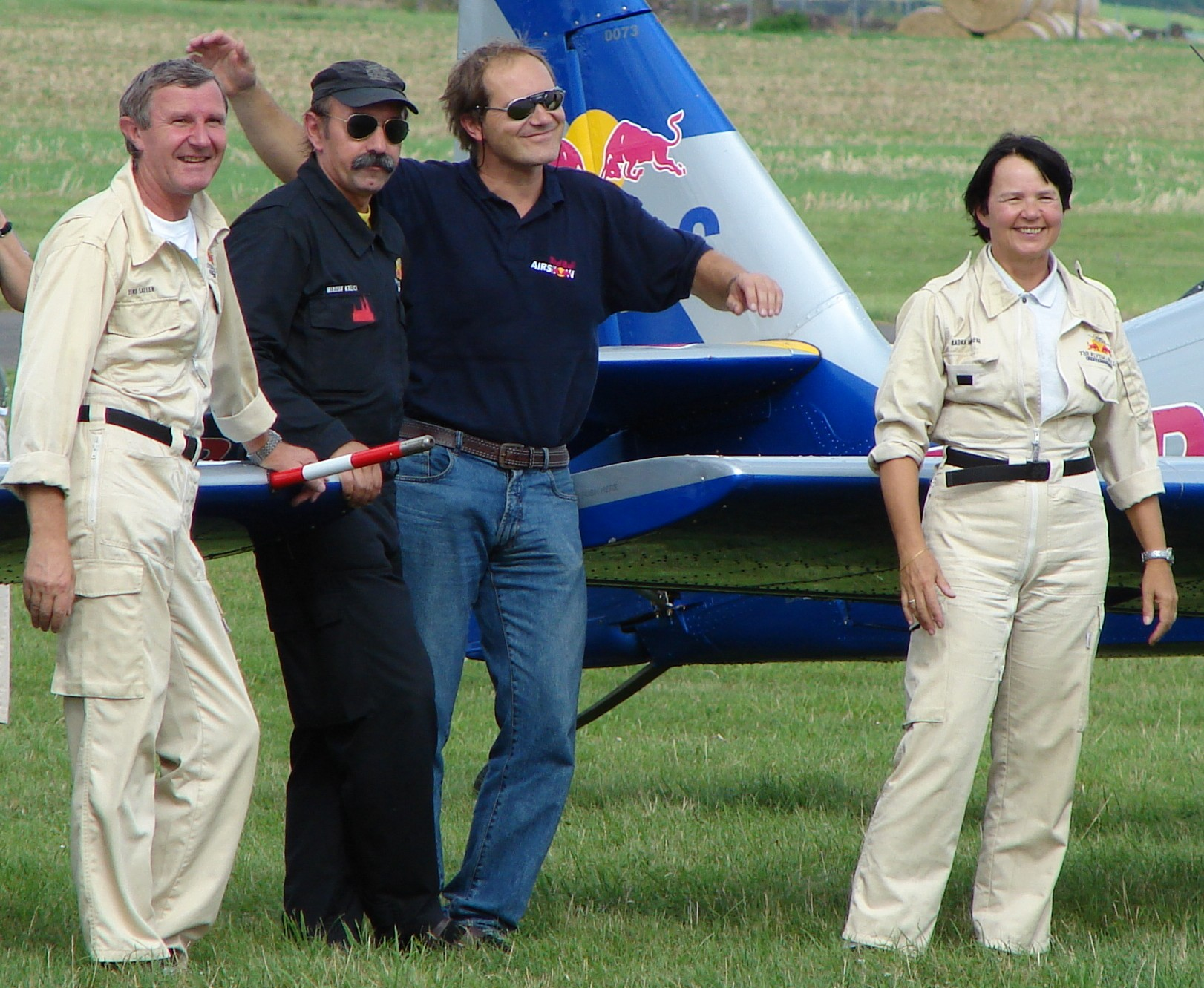 Flying Bulls Aerobatics Team during an Air Show in Krems, Austria